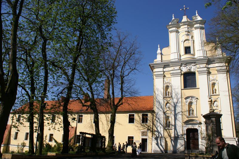 Franciscan Monastery in Woźniki, close to Grodzisk Wielkopolski, Poland